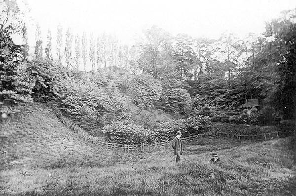 Joan Waste (1534 - 1 August 1556) was a blind girl who was burnt in Derby for refusing to renounce her protestant faith at Windmill hill (pictured). Picture was taken in the "nineteenth century". This place was known as the "ordeal pit"